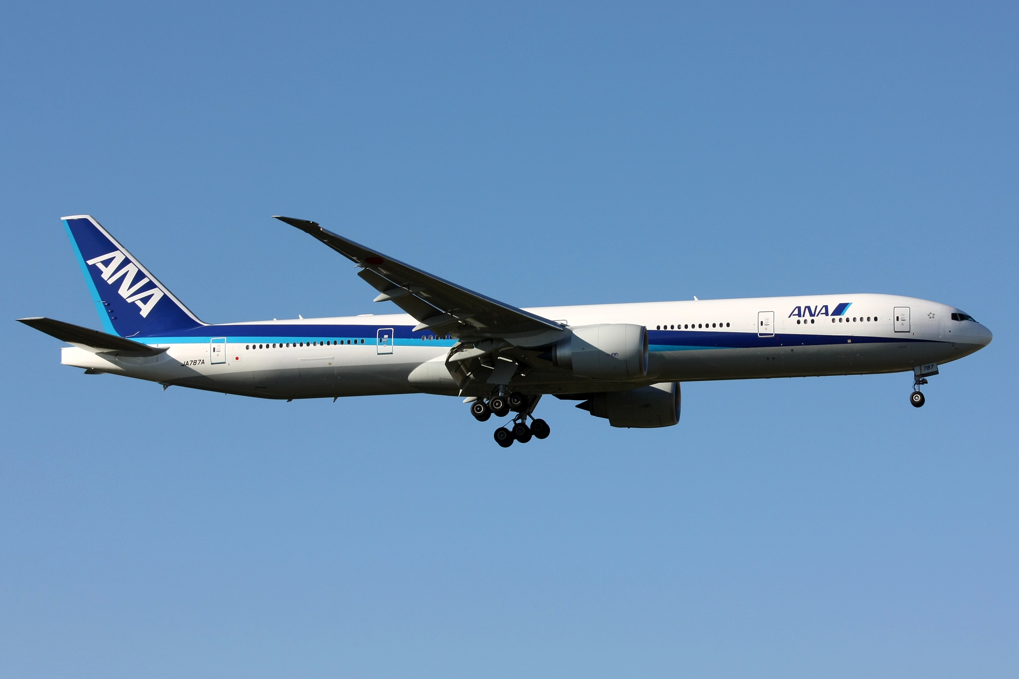 ANA Boeing 777-300 JA787A is landing at Frankfurt Int'l Airport